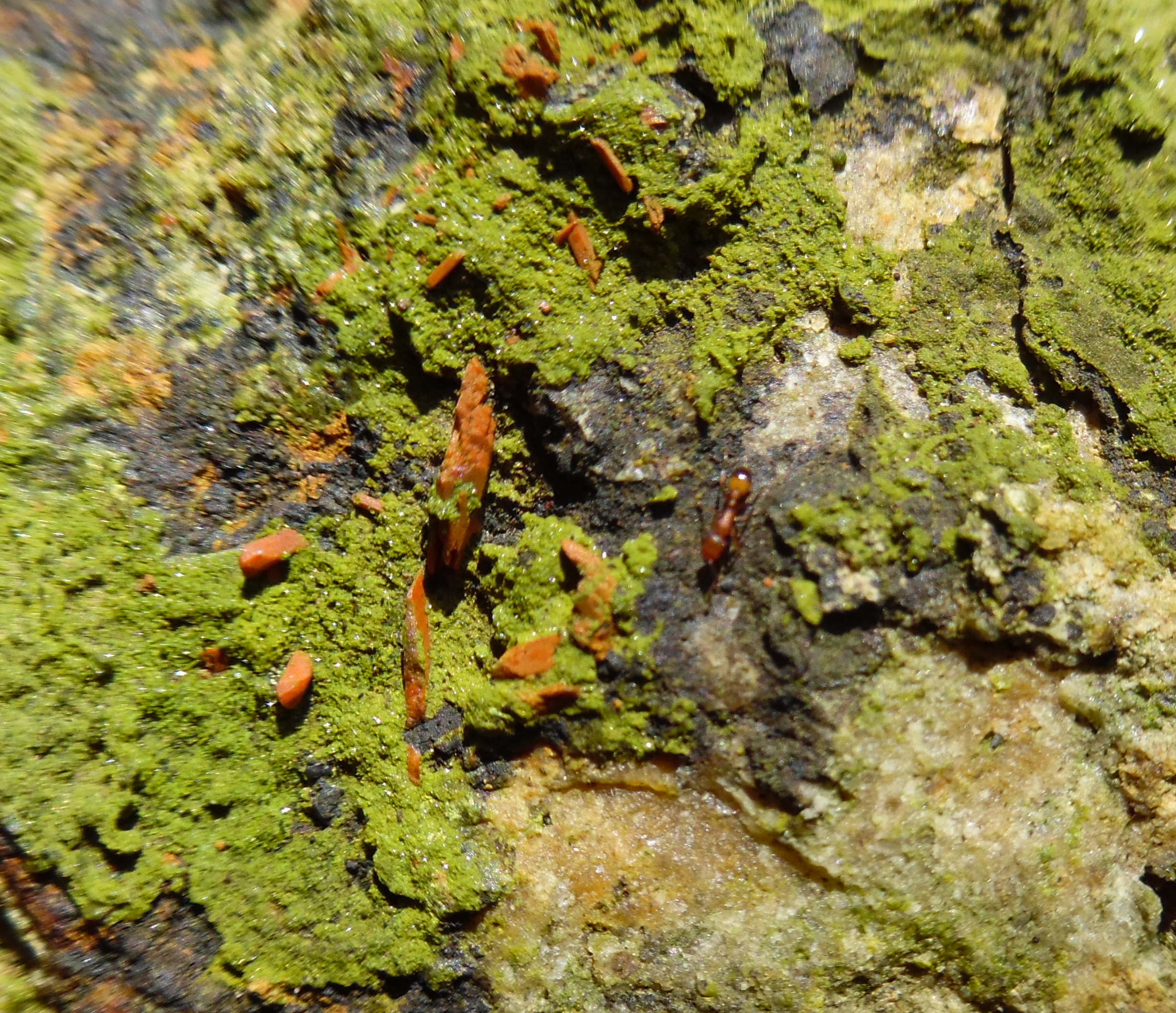 Secondary lead minerals pyromorphite (green) and crocoite (orange) on galena coating massive quartz. Cantonnier lode from Nontron, Dordogne, France. Ant for scale.